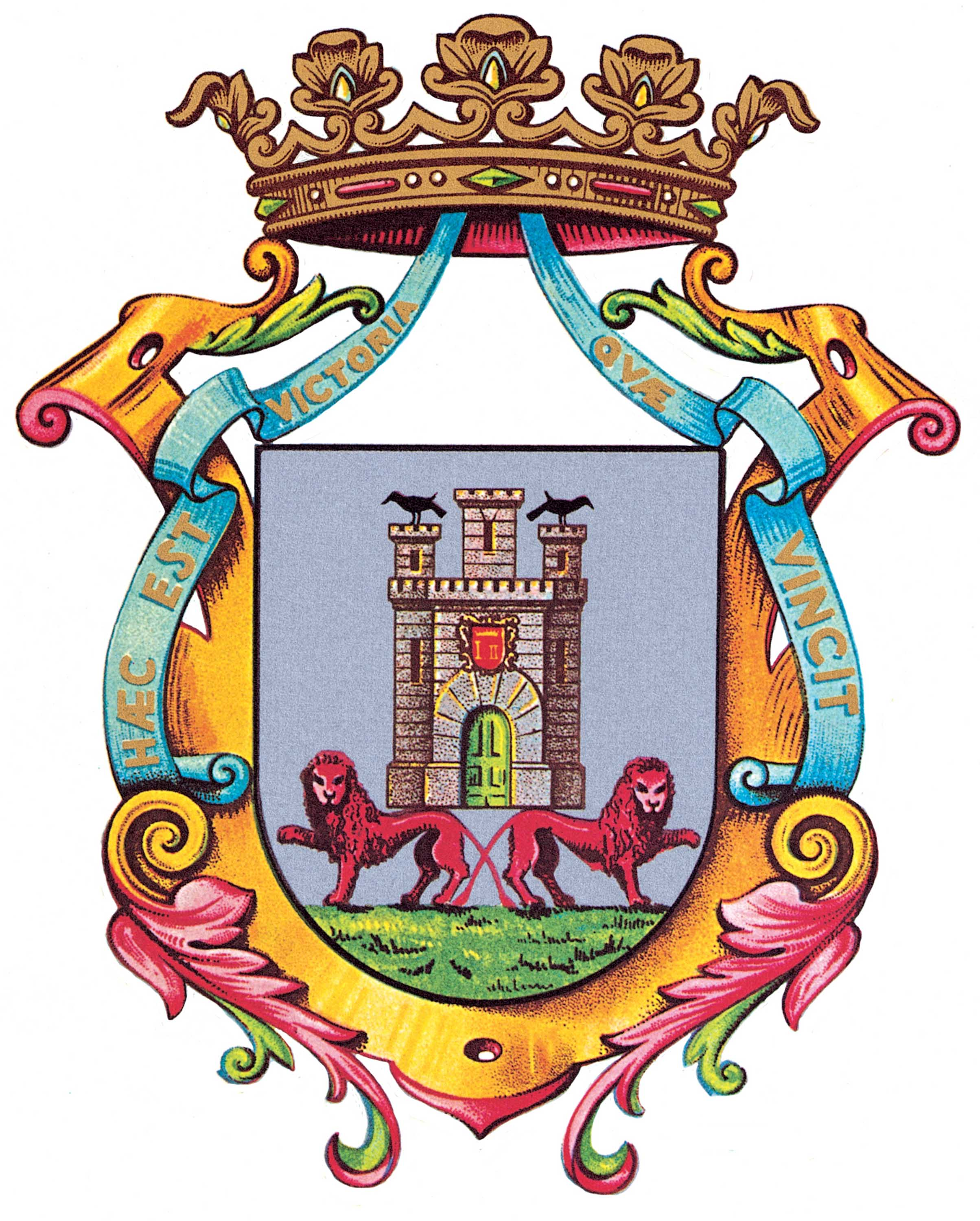 Vitoria Gasteiz emblem